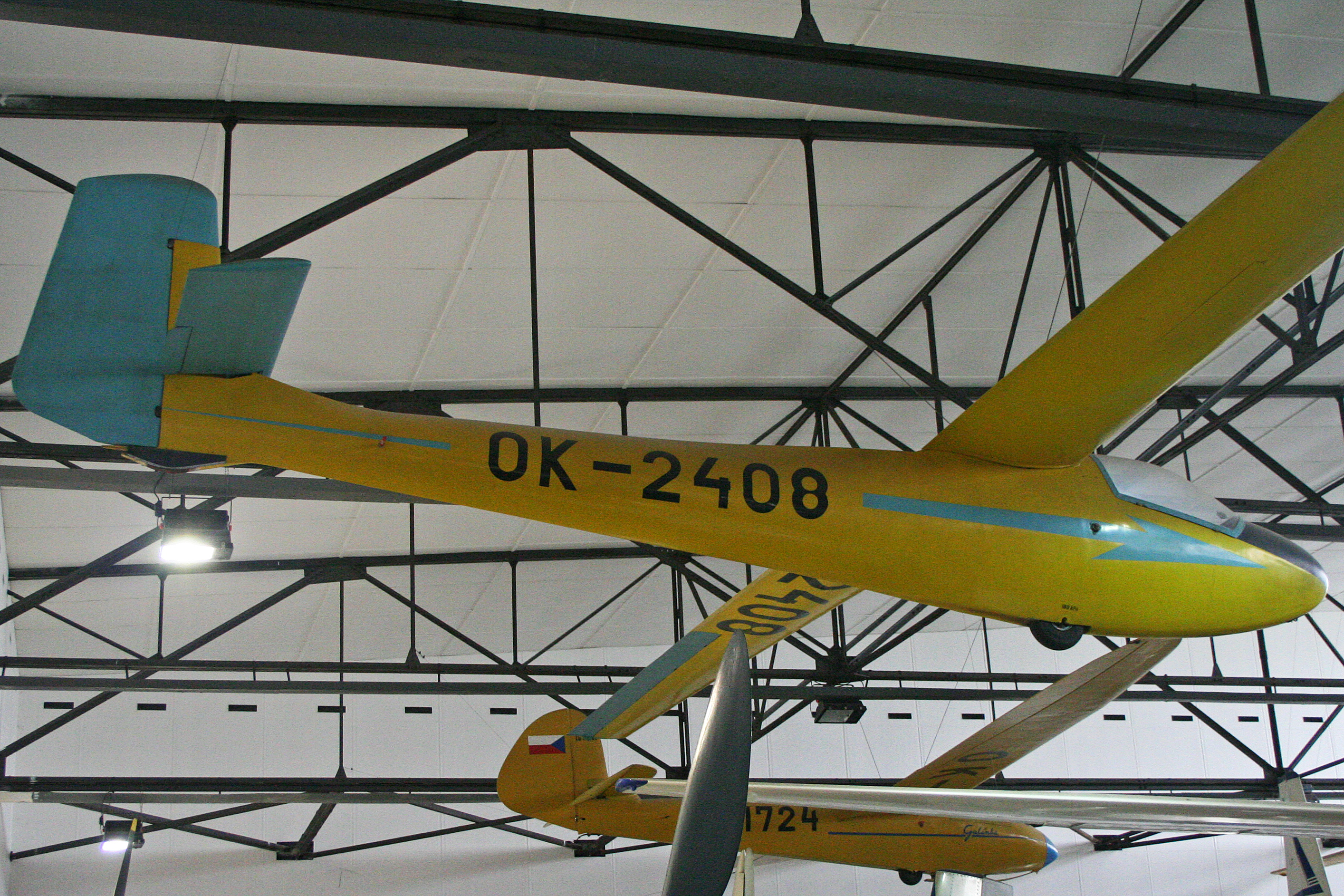 msn 150120. On display in the Post War hangar, Kbely museum, Czech Republic. 07-10-2012